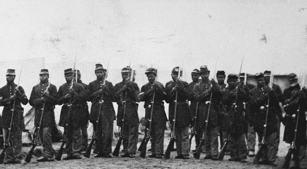 Photograph of black soldiers of the Native Guard regiments of the Union army at Port Hudson, Louisiana, 1862-1864